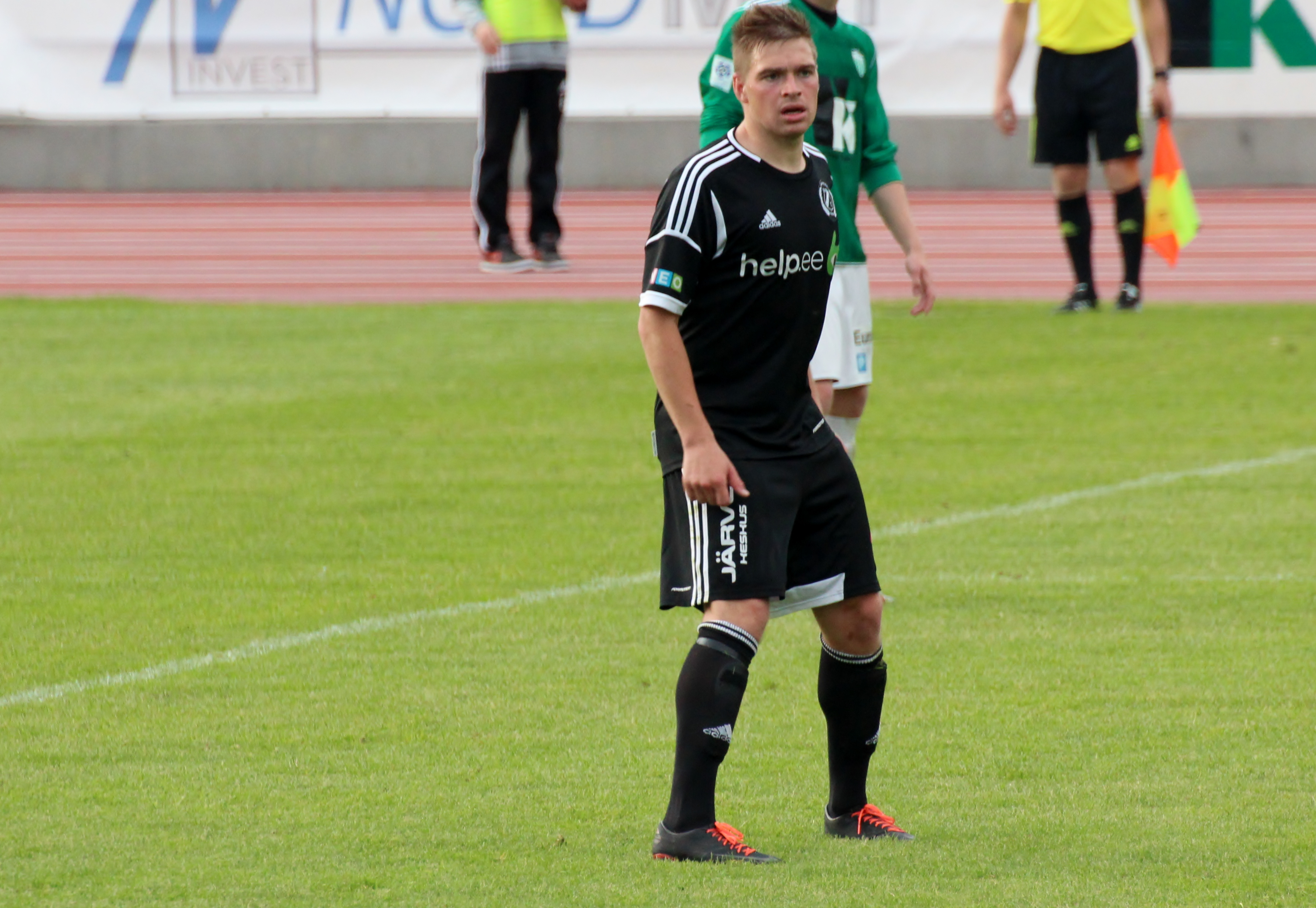 JK Nõmme Kalju player Jüri Jevdokimov